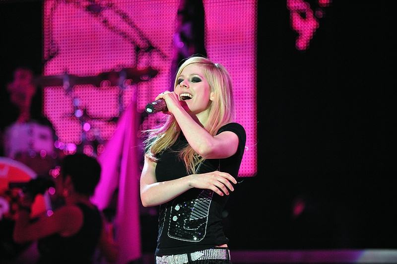 Avril Lavigne performing at the Heineken Music Hall, in Amsterdam, Netherlands.